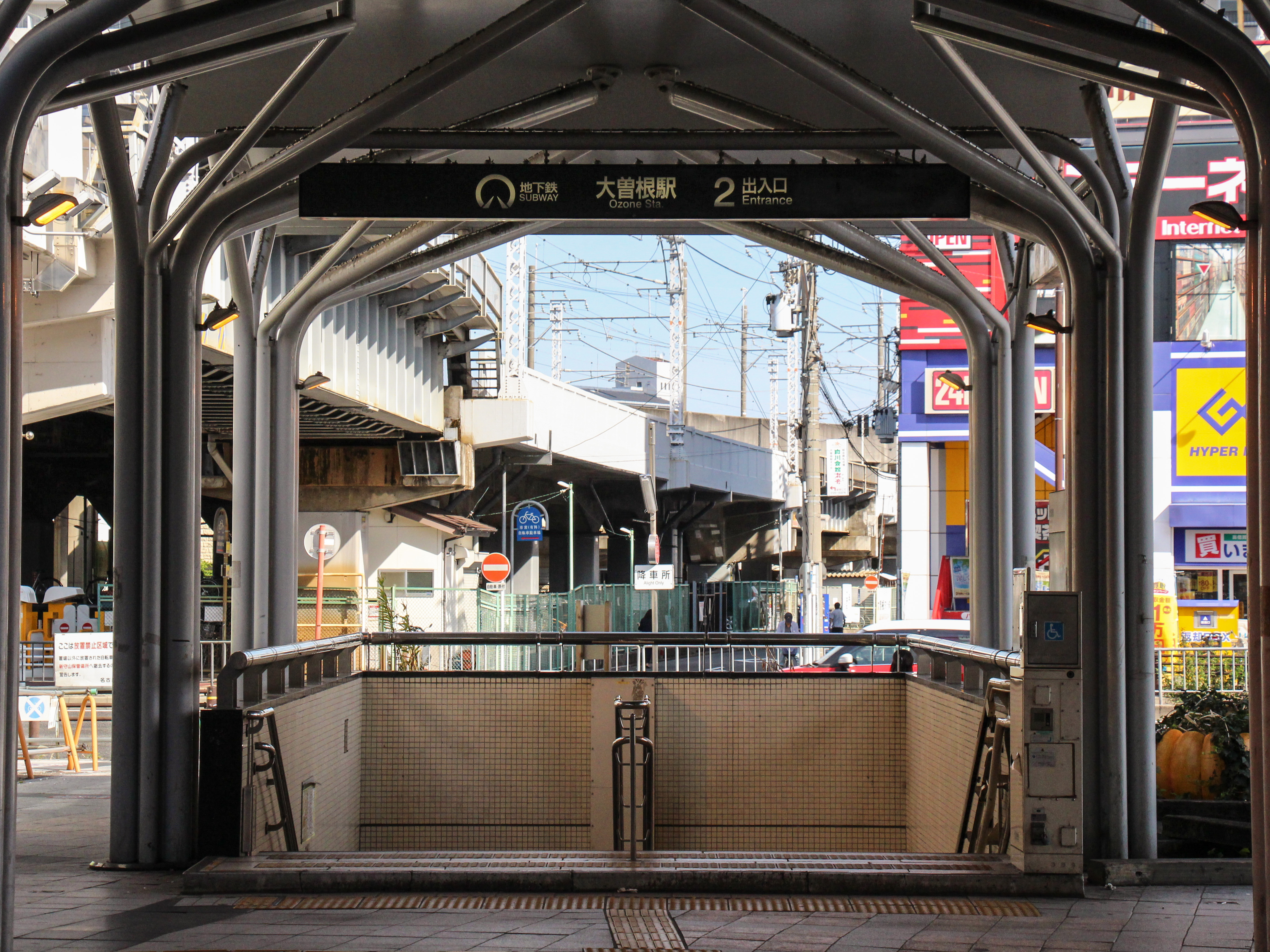 Nagoya Municipal Subway Ōzone Station 2 Entrance